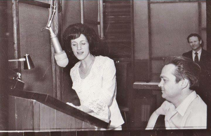 Sharon Higgins recording vocals with Doyle Wilburn